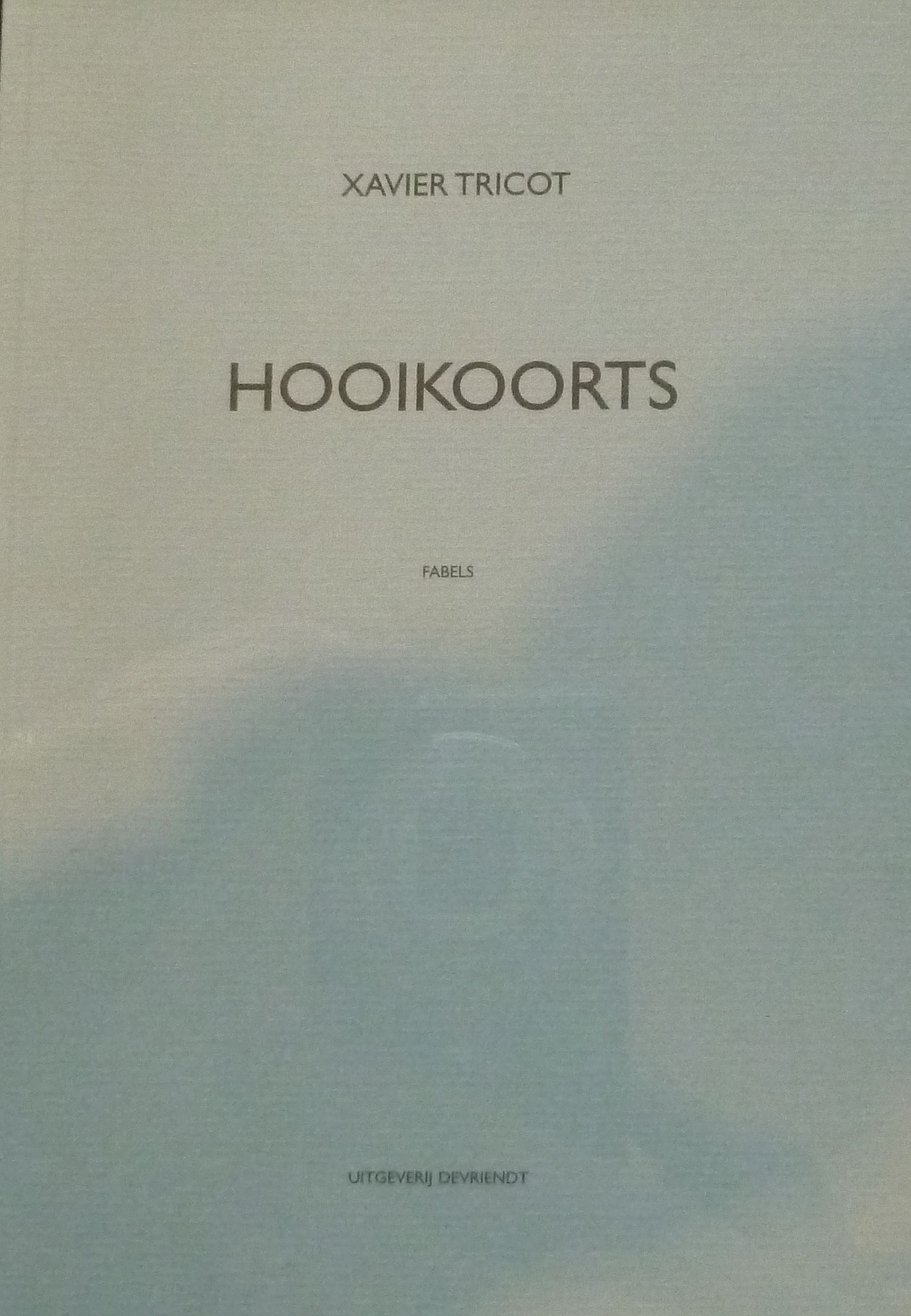 Stories (2006): "Hay Fever" by the Belgian artist Xavier Tricot